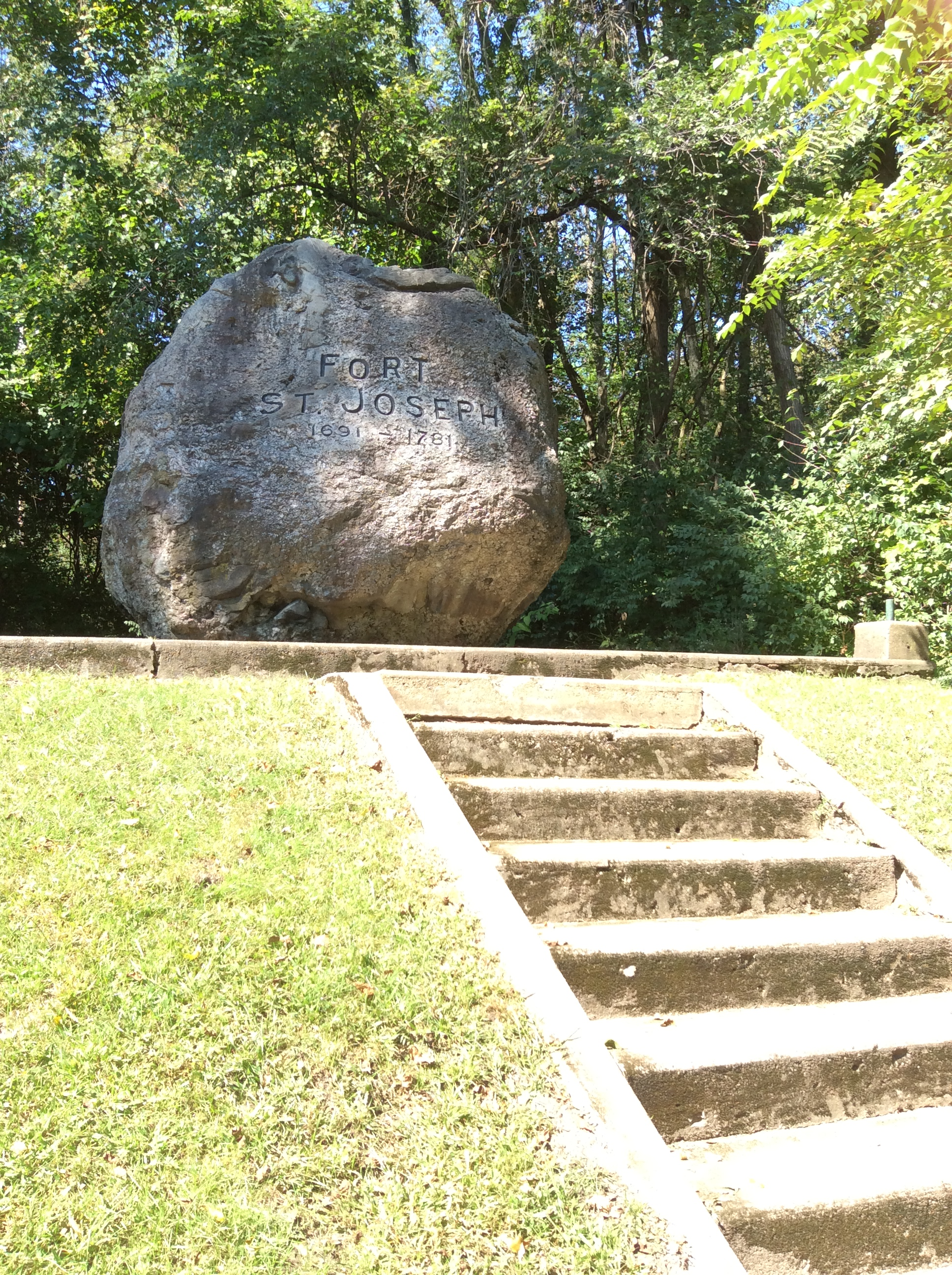 Niles, MI